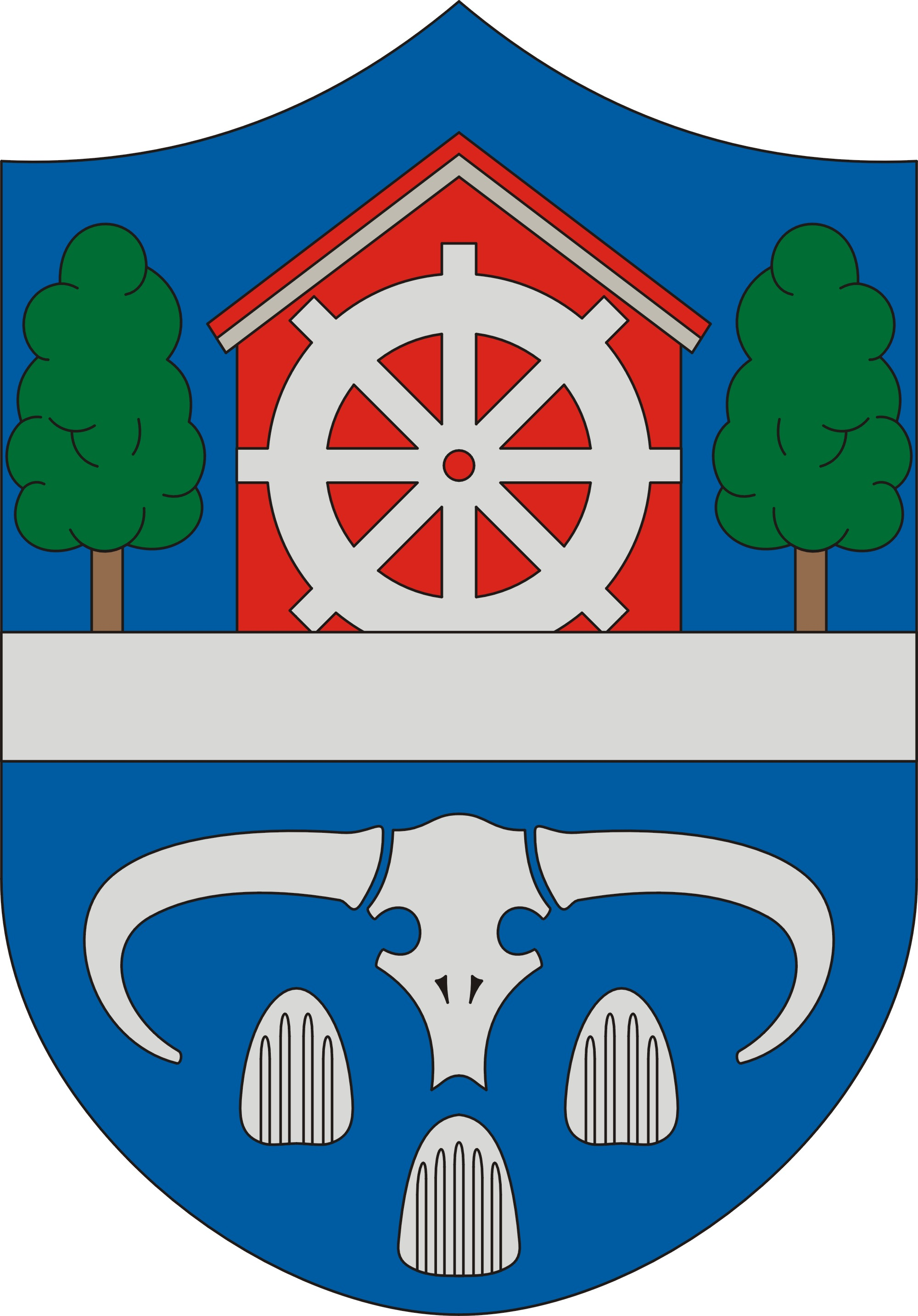 Coat of arms of Kup, Hungary